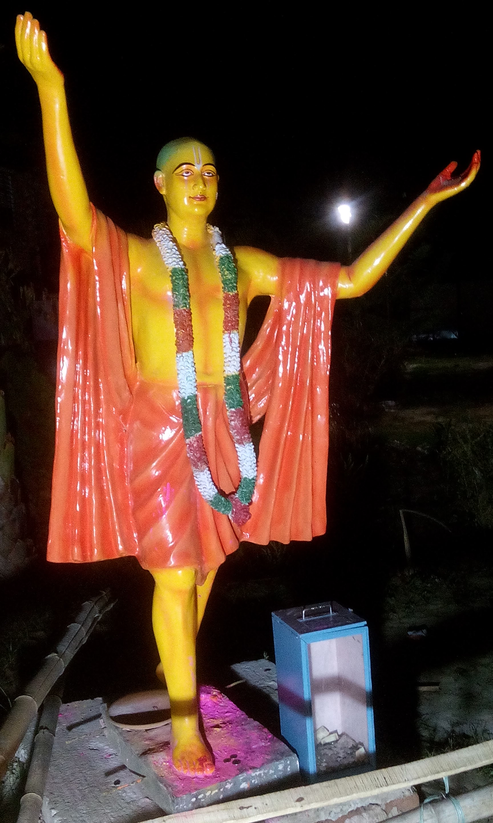 it's a statue which is built in Nabadwip